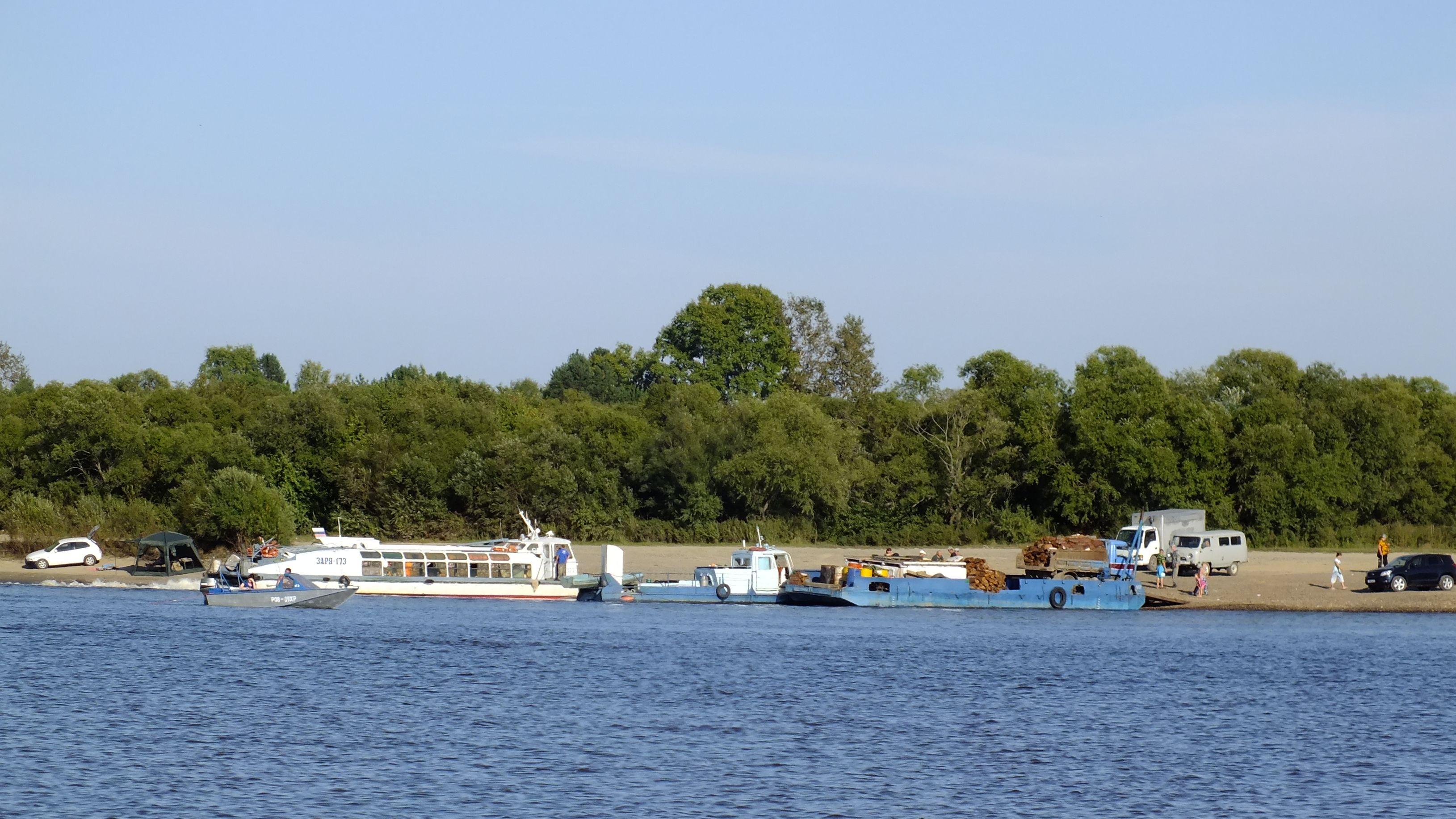 Tunguska EAO River